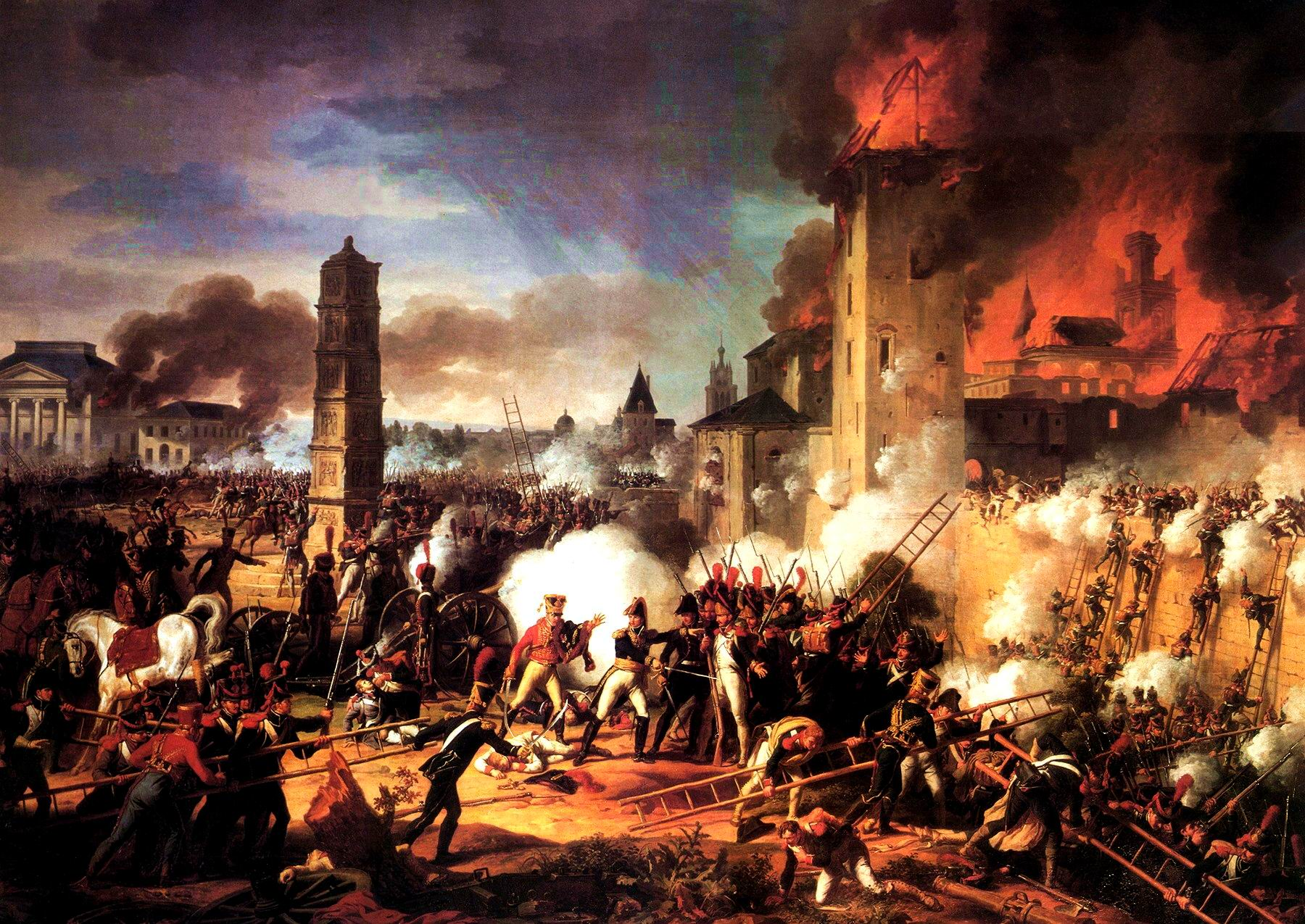 Marshal Jean Lannes (depicted in the centre) was instrumental in securing the victory for the French. Erkennbare Gebäude: Torturm des Peterstores und Jesuitenkloster brenned, links davon Predigtsäule (noch heute erhalten) links im Hintergrund Gartenschloss Theresienruhe (nicht erhalten, Abriss 1949